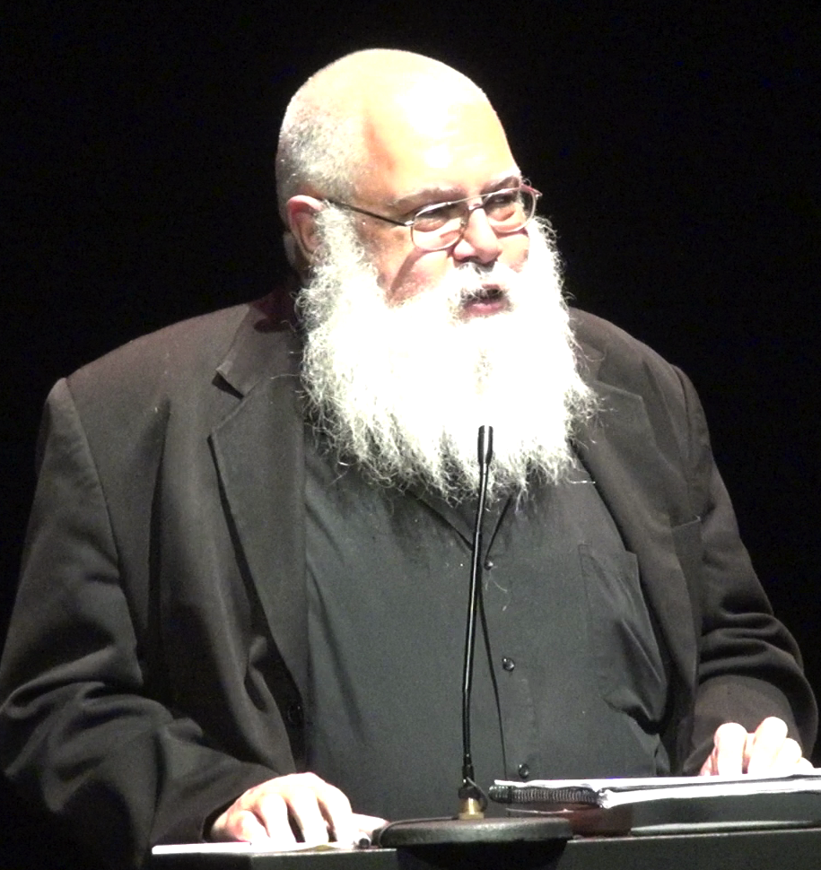 Samuel R Delany reading at The Kitchen for an event for Volume 2 of the Encyclopedia Project